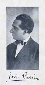 Portrait photograph of Luís Cebola (1876-1967), in a 1925 edition of his book Almas Delirantes.